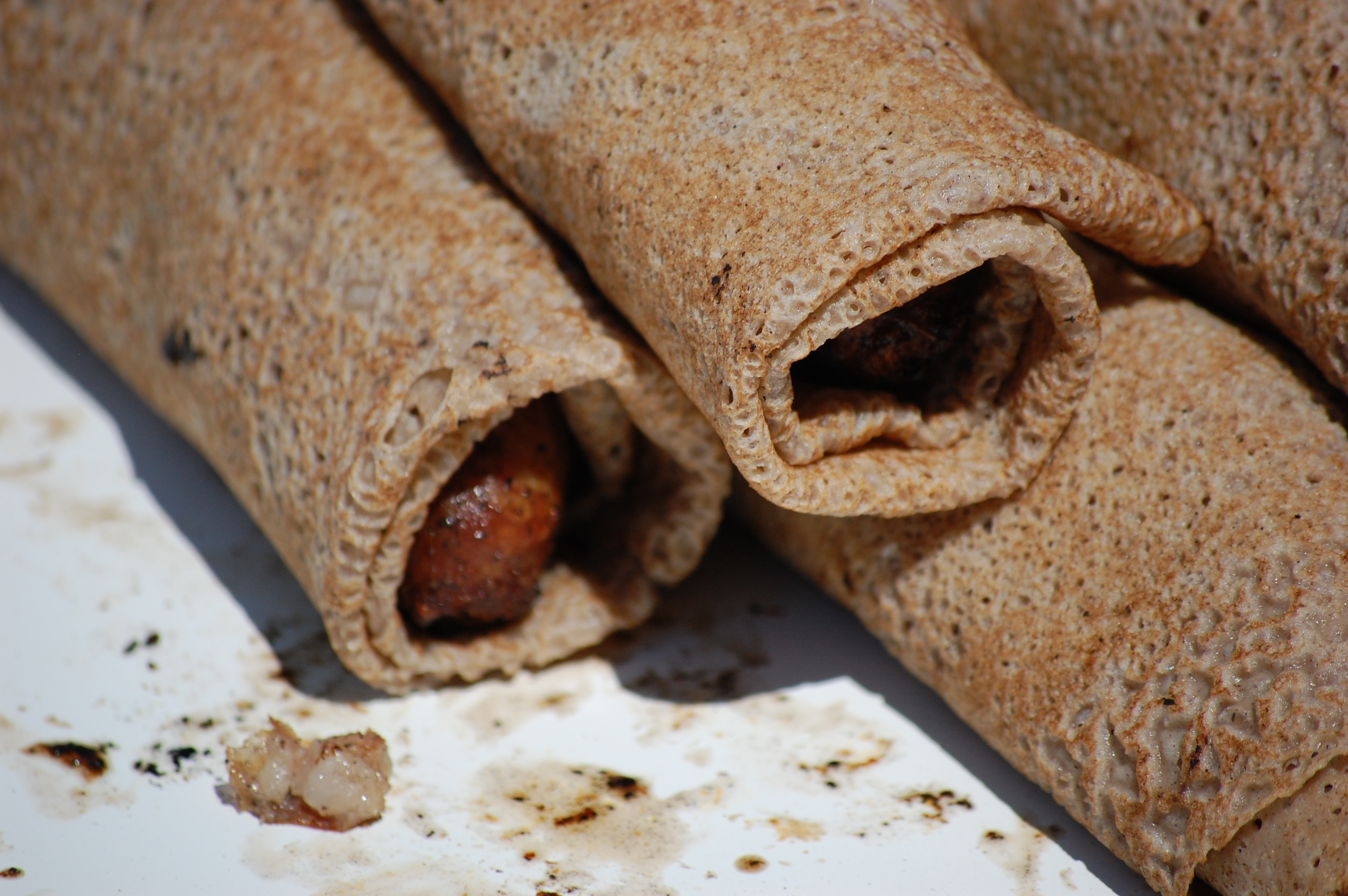 Some galette-saucisse, an eastern Brittany speciality